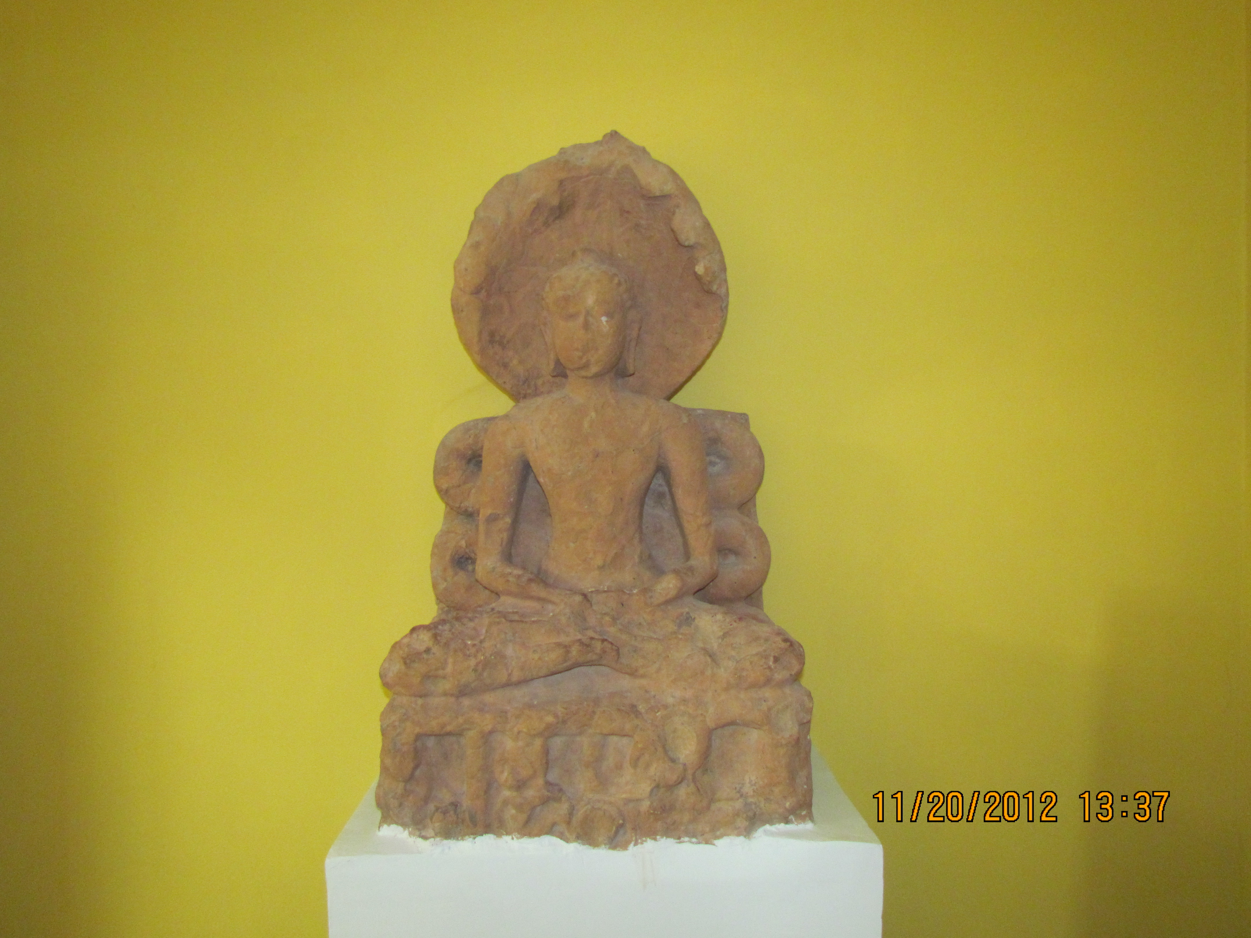 Laxman Mandir Museum